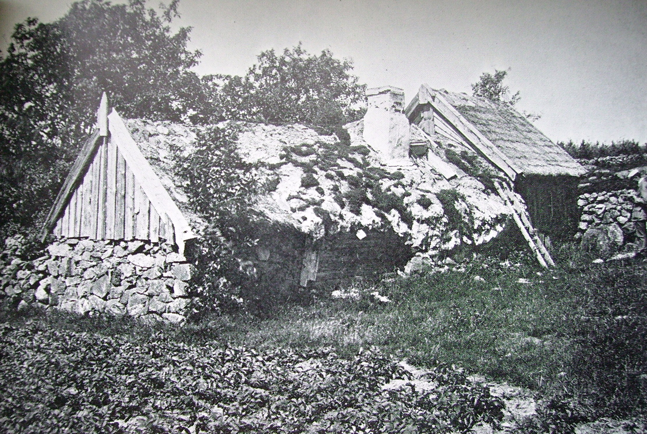 A cottage in the county of Halland in Sweden